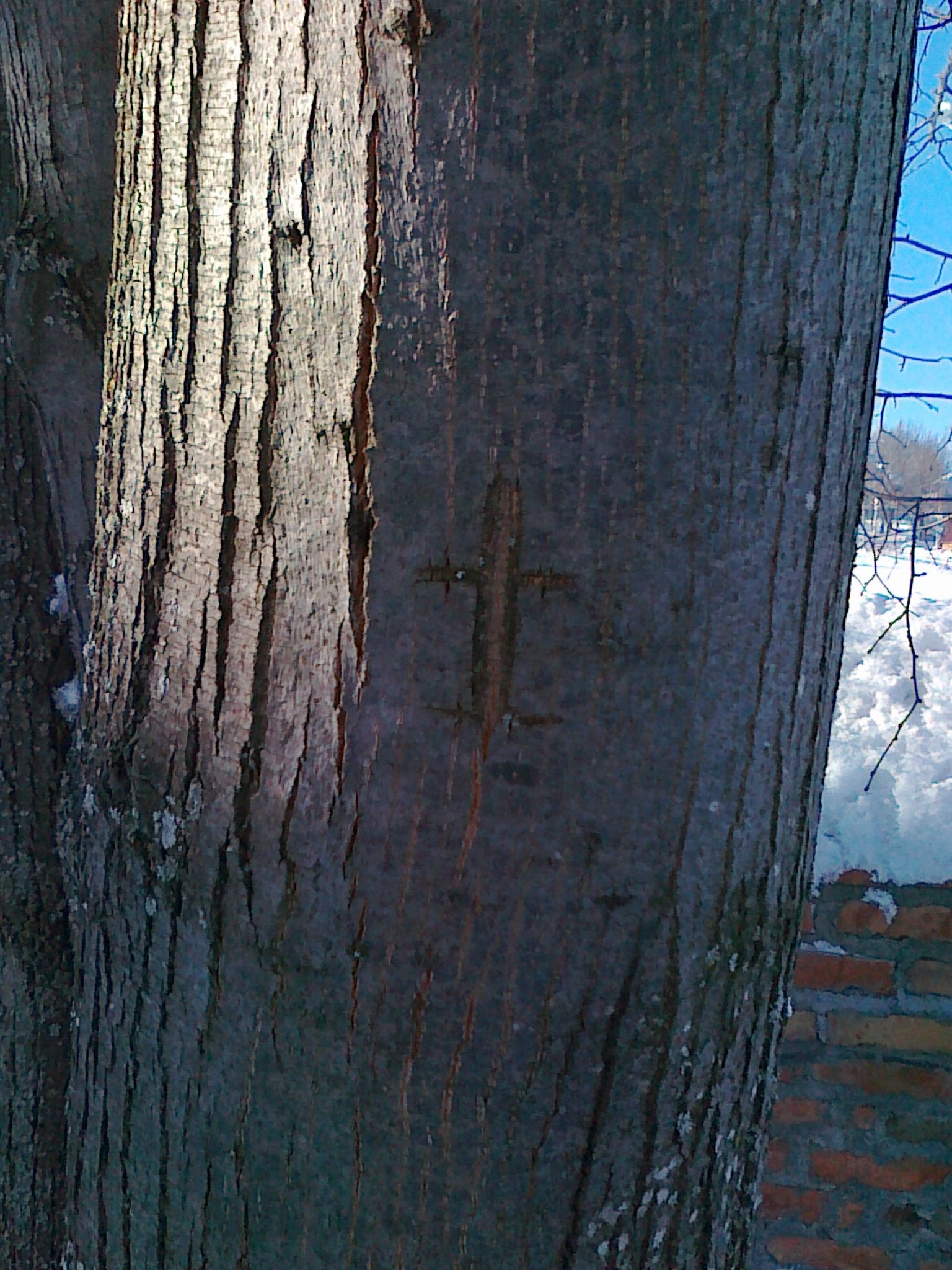 Zapis - Sacred Tree in village Goč, municipality Vrnjačka Banja, Serbia